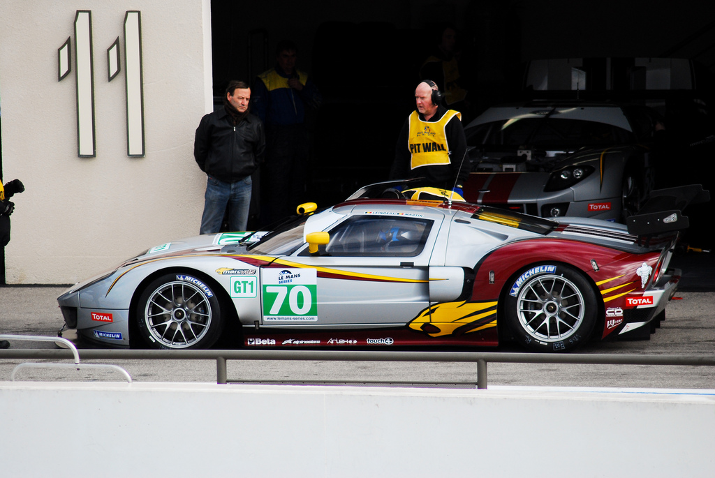 Ford GT #70 of the Marc VDS Racing Team driven by Bas Leinders, Maxime Martin and Eric De Donker